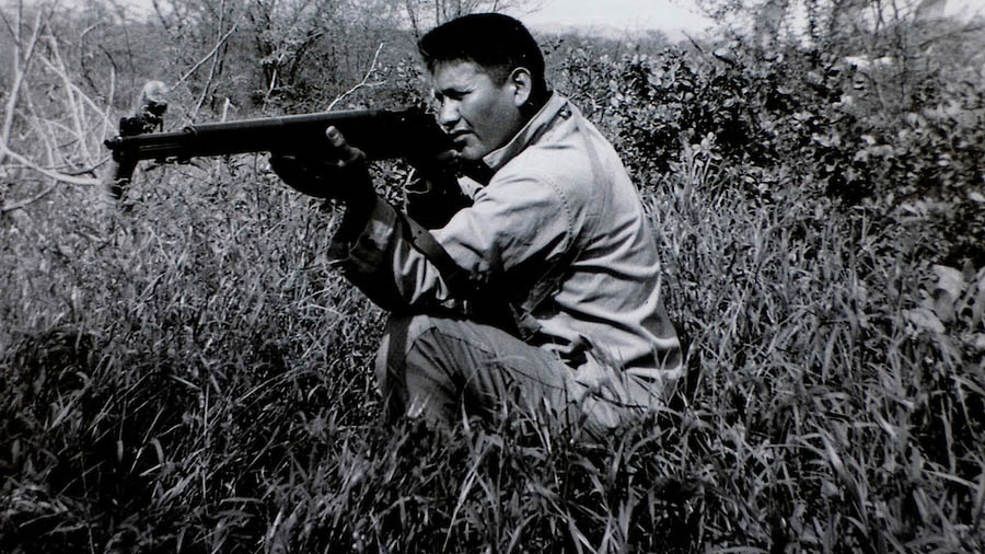 A posed shot of Chester Nez taken during World War II.